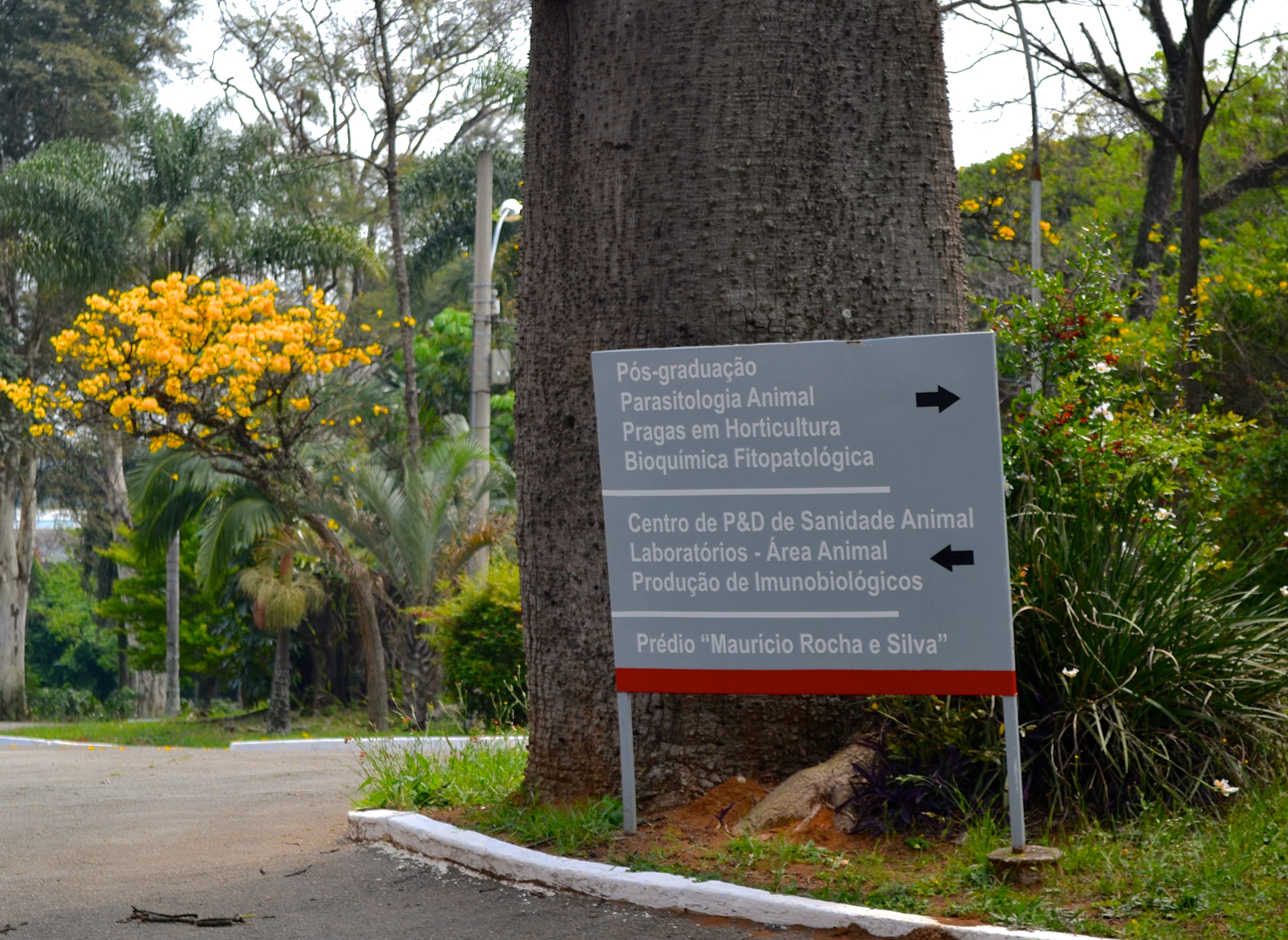 Jardins e placa informativa do Instituto Biológico de São Paulo, em São Paulo (SP), Brasil.